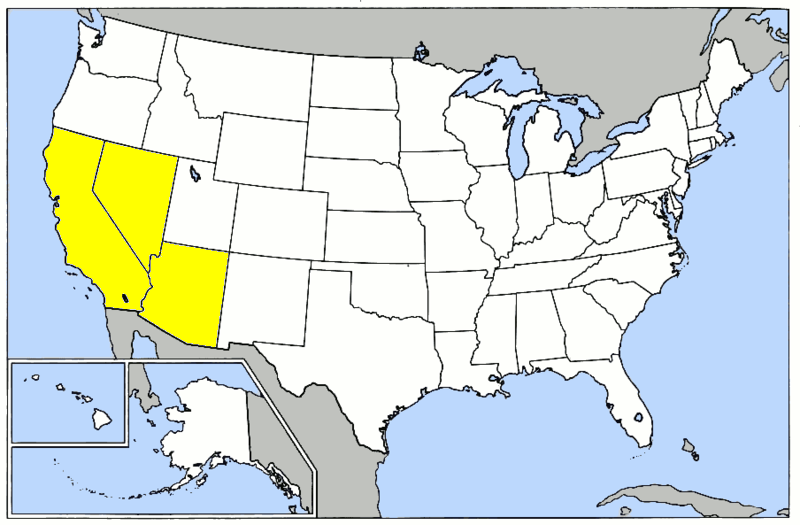 36th Flying Training Wing (World War II) - Map. Based upon for basemap; Lineage and History of 31st Flying Training Wing (World War II); United States Air Force Historical Research Agency Document, Maxwell AFB, Alabama